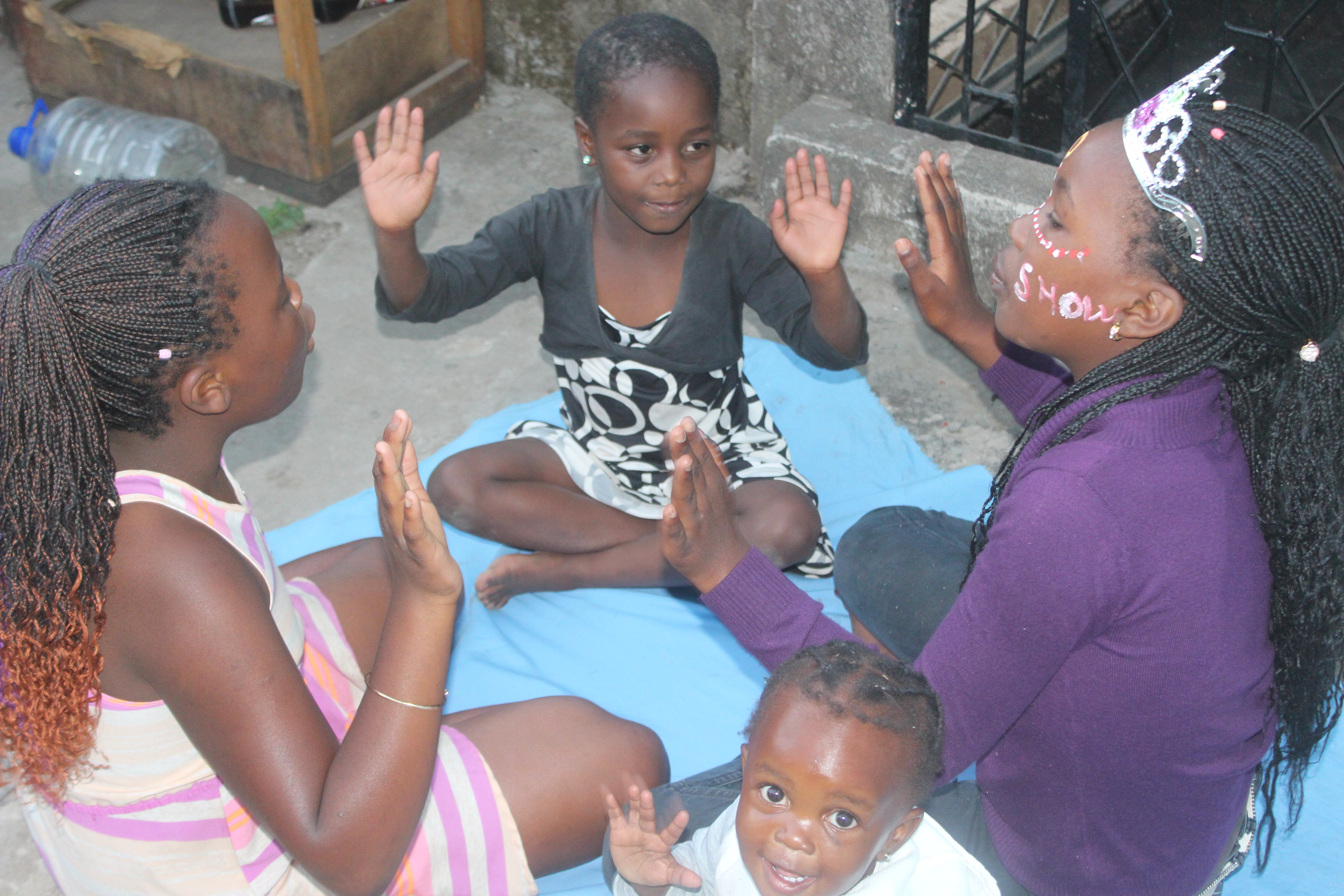 This is an image with the theme "Play" from: Zimbabwe